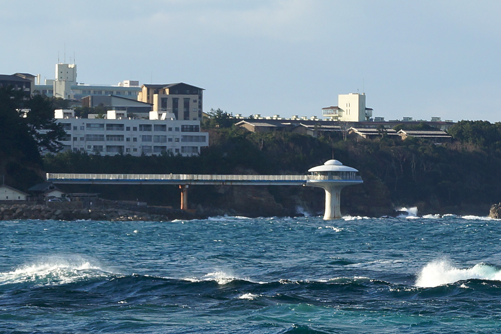 Nanki-Shirahama Onsen in Shirahama, Wakayama prefecture, Japan.